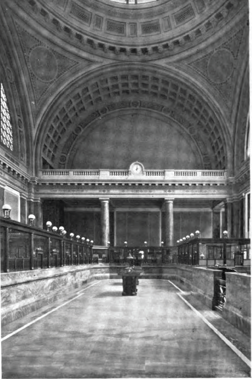 Interior bank lobby of Chemical National Bank (Chemical Bank) ca. 1913